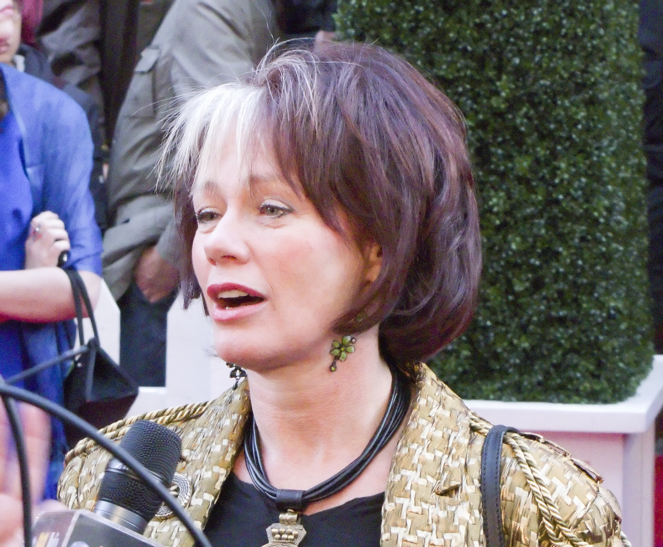 Arlene Dickenson of the Dragons' Den on Canada's Walk of Fame